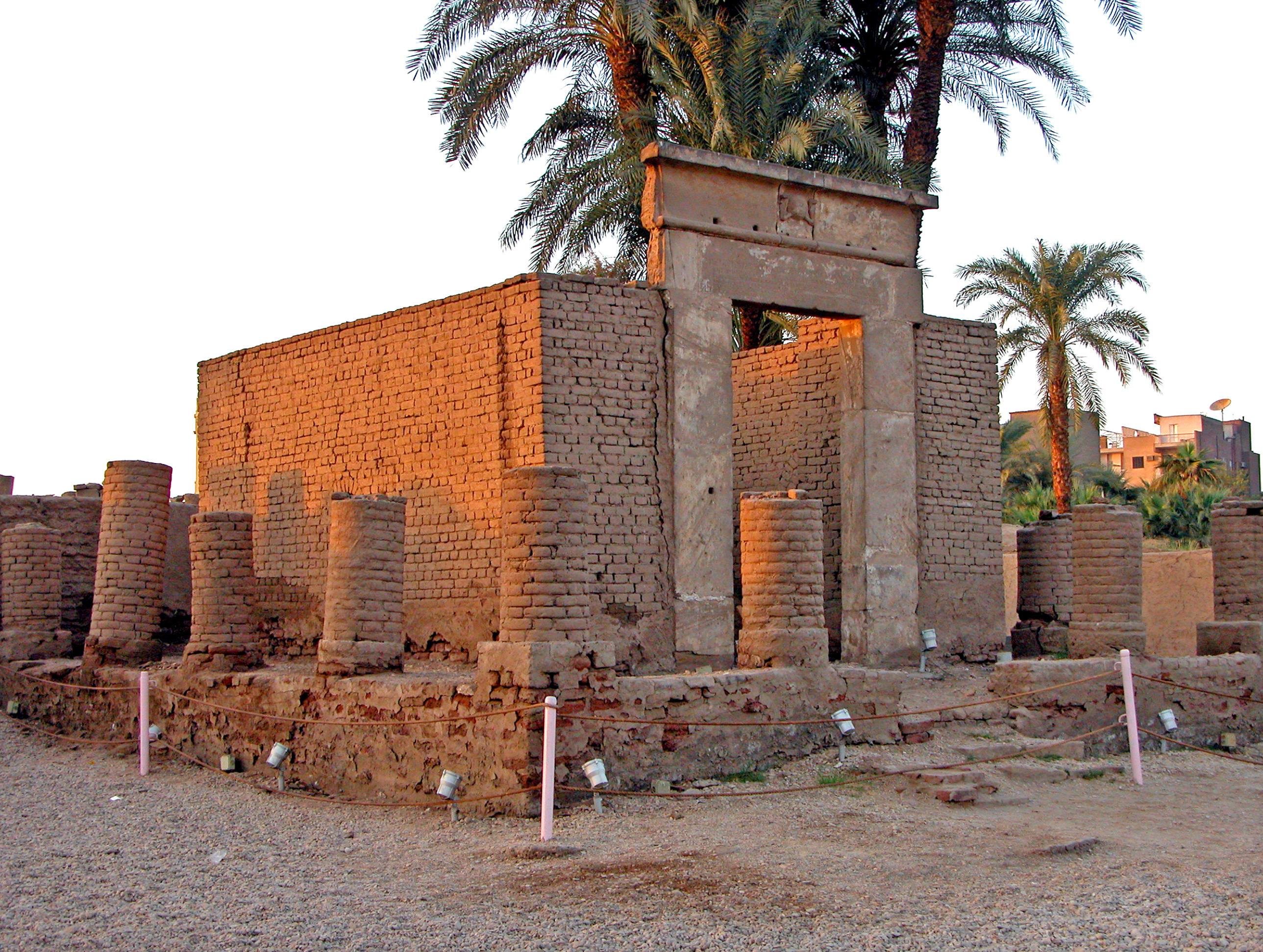 A small Roman Chapel near the entrance of Luxor Temple. Luxor, Egypt